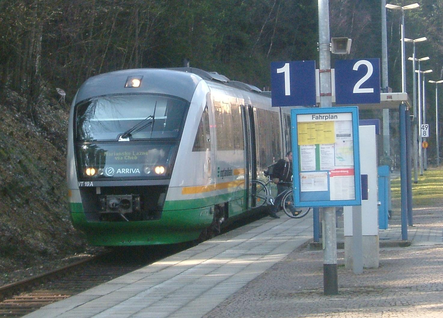 Siemens Desiro, VT19a, operated by the Vogtlandbahn in Bad Brambach station.